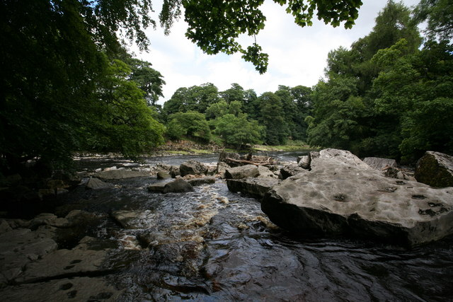 "The Meeting of the Waters" Where the River Greta joins the River Tees